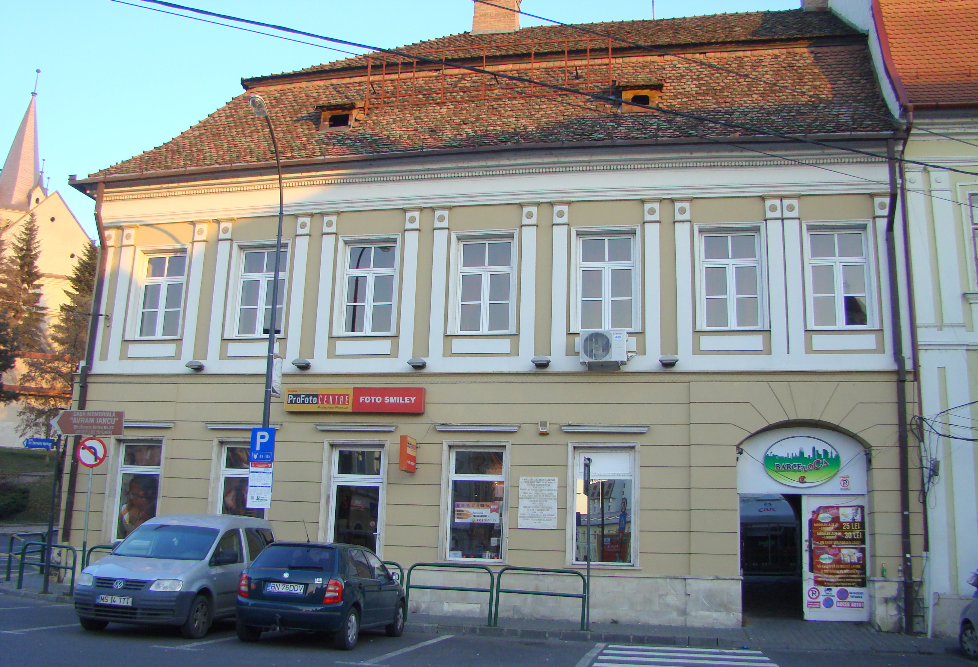 Haller house in Târgu Mureș, Mureș county, Romania